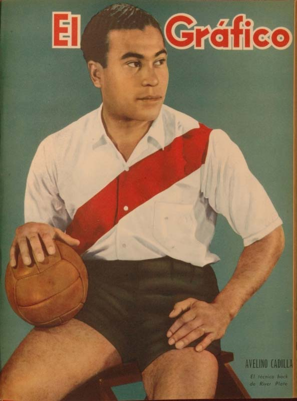 Uruguayan defender Avelino Cadilla wearing the River Plate jersey